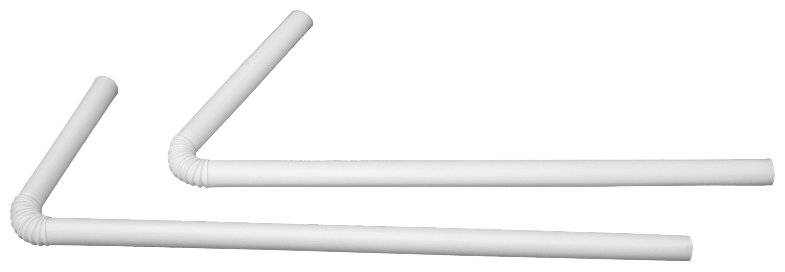 Straws made of PLA-Blend Bio-Flex